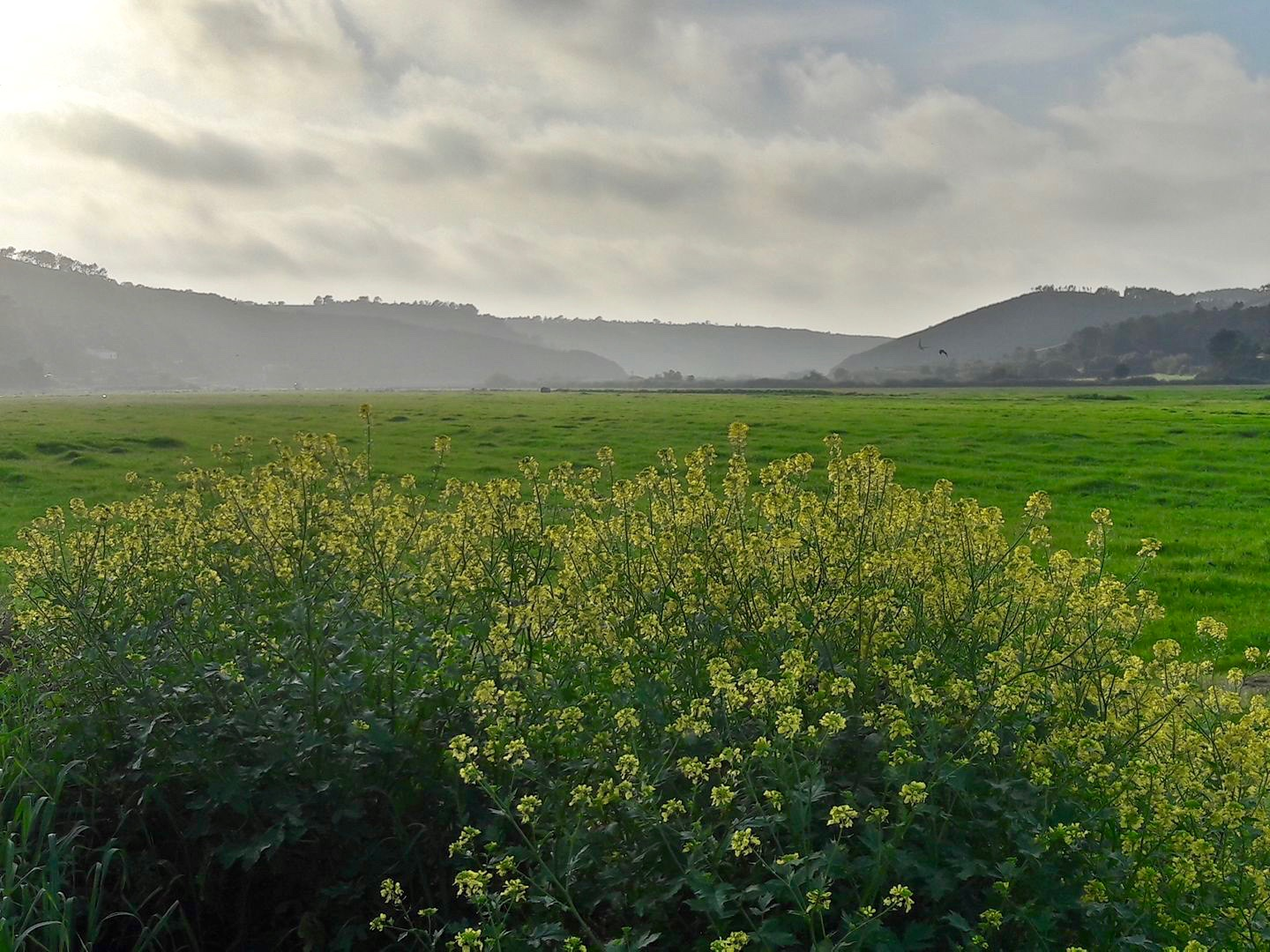 Vale da Ribeira de Seixe - Odeceixe